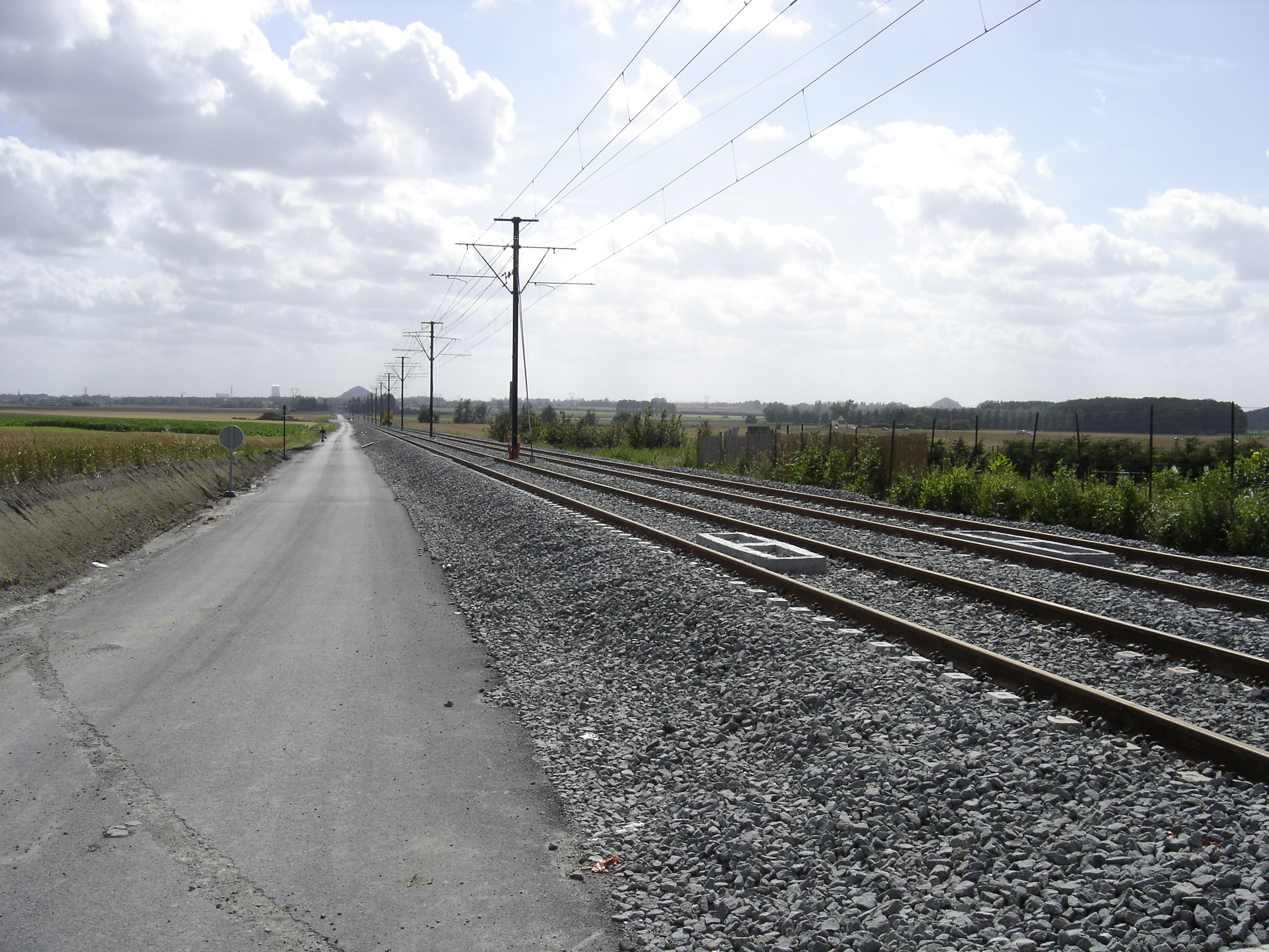 The line 2 of the Valenciennes tram between Hérin and Denain. (ex Somain - Péruwelz railwayline) Picture taken in July 2007 by myself.